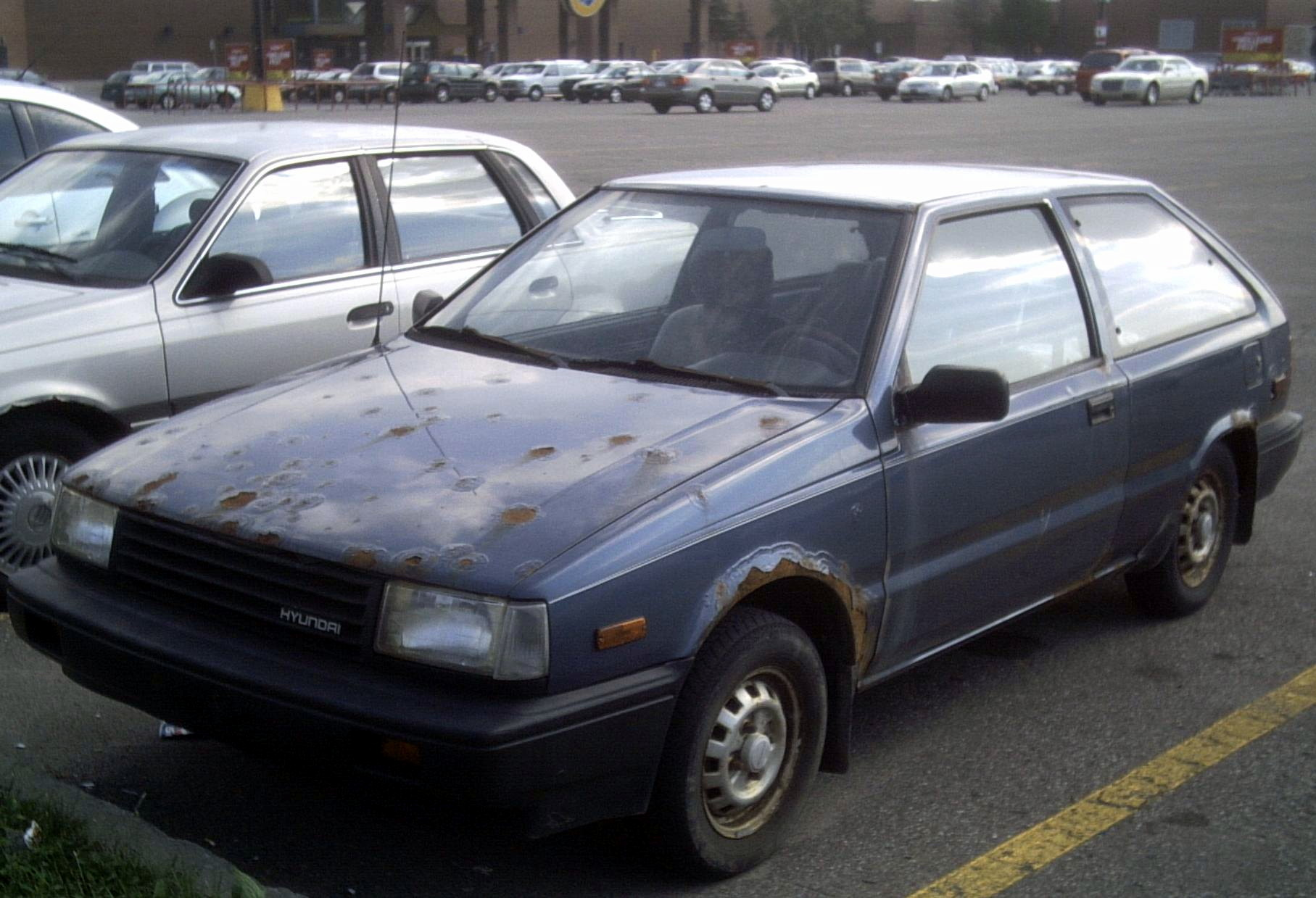 1988-1989 Hyundai Excel (X1)